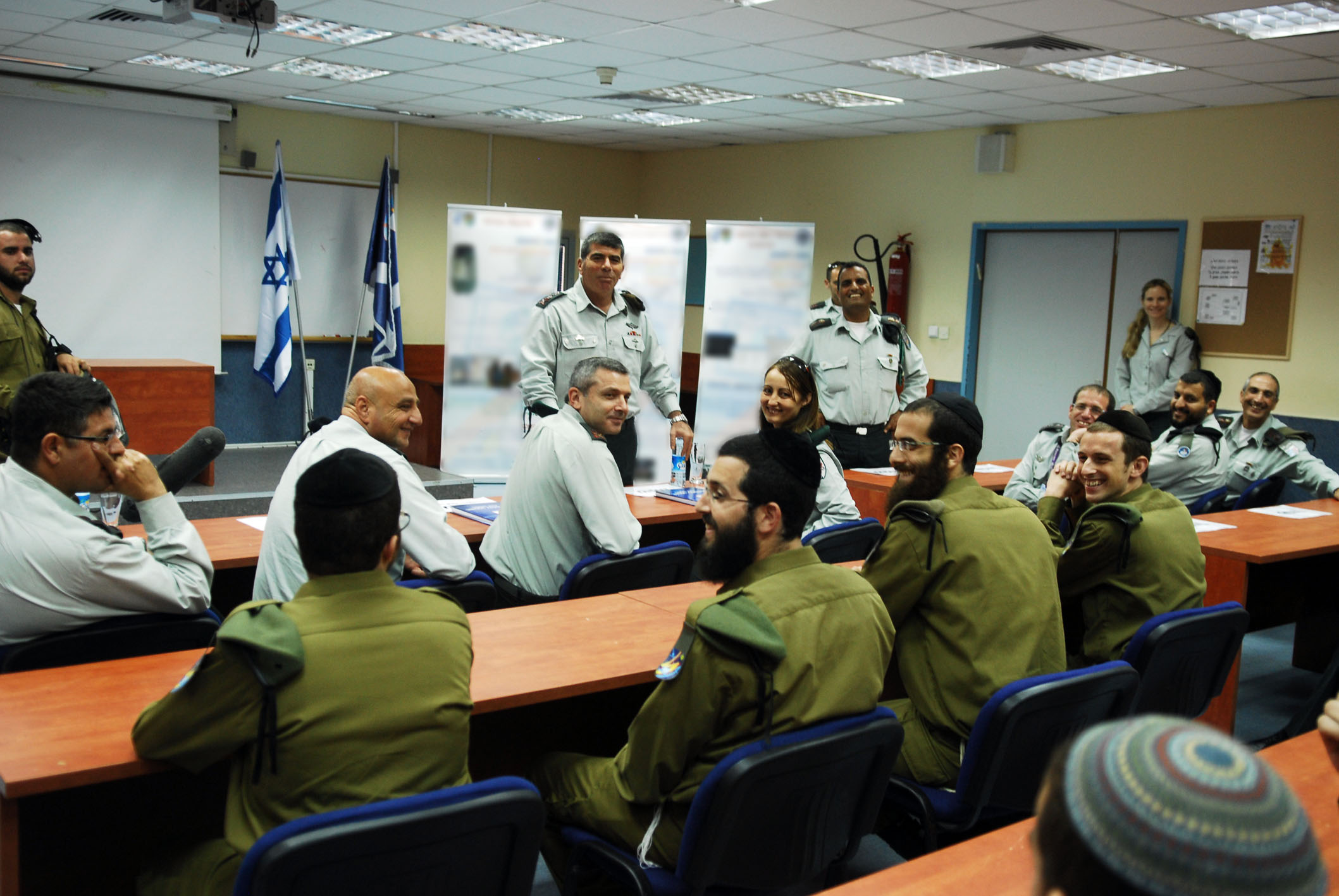 September 9, 2010. “As the Chief of the General Staff, I am extremely proud to see you fitting in to naturally and with such success in key positions throughout the leading technological units in the IDF. The integration of Ultra-Orthodox soldiers in the Air Force, Navy, Ground Forces, Intelligence and C4I units is a success story which we must continue and develop as much as we can.” Thus said the Chief of the General Staff, Lt. Gen. Gabi Ashkenazi , to the Ultra-Orthodox soldiers who graduated from the programming course, whom he met during a visit to the IDF School of Computing. For more details: dover.idf.il/IDF/English/News/today/10/09/2203.htm The Israel Defense Forces Facebook • blog • Twitter